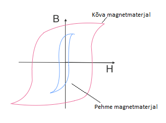 Hysteresis loops of hard and soft magnetic materials